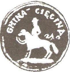 Seal of Cięcina from 1819-90